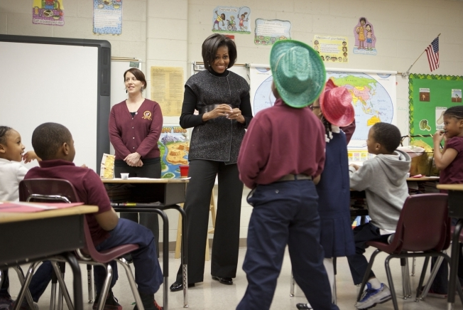 First Lady Michelle Obama visits second graders at Burgess-Peterson Academy, Atlanta, Georgia, February 9, 2011.